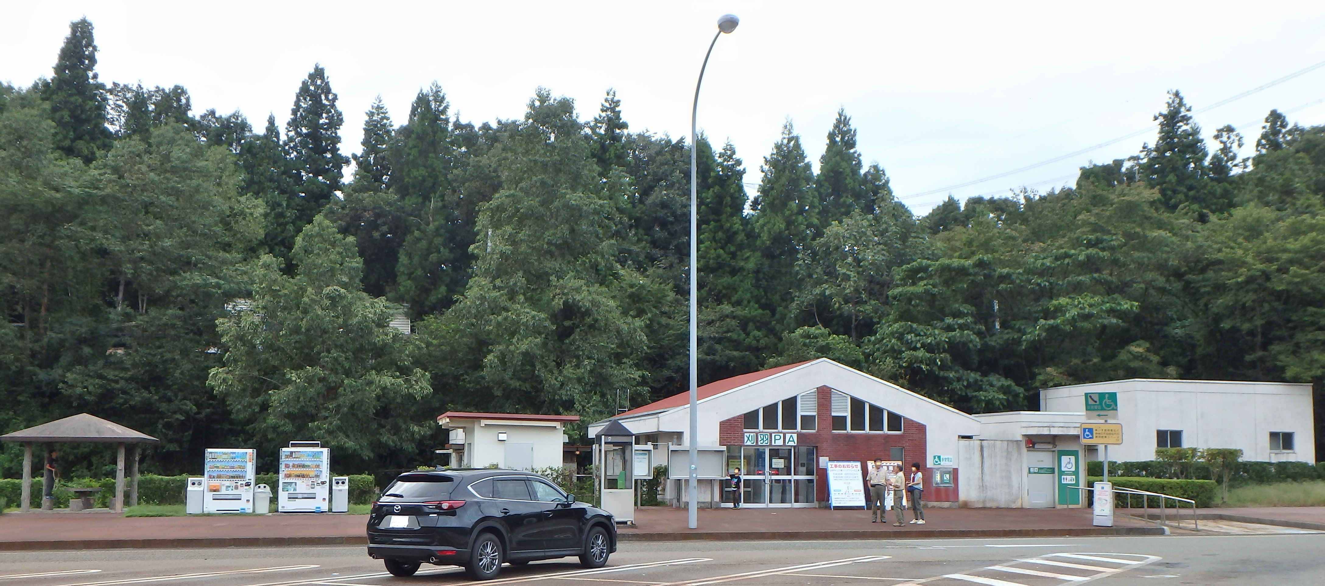 Kariwa Parkig Area for Niigata Niigata prefecture,Japan